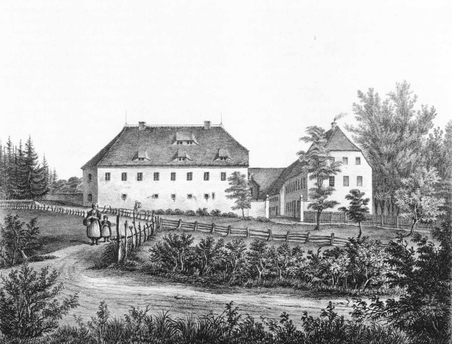 manor Pretzschendorf in the Erzgebirge